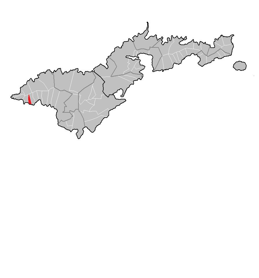 Locator map of Agugulu village